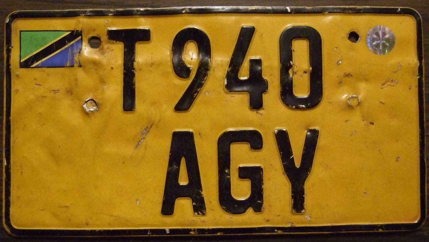 TANZANIA 2000's ---TWO LINE PASSENGER PLATE